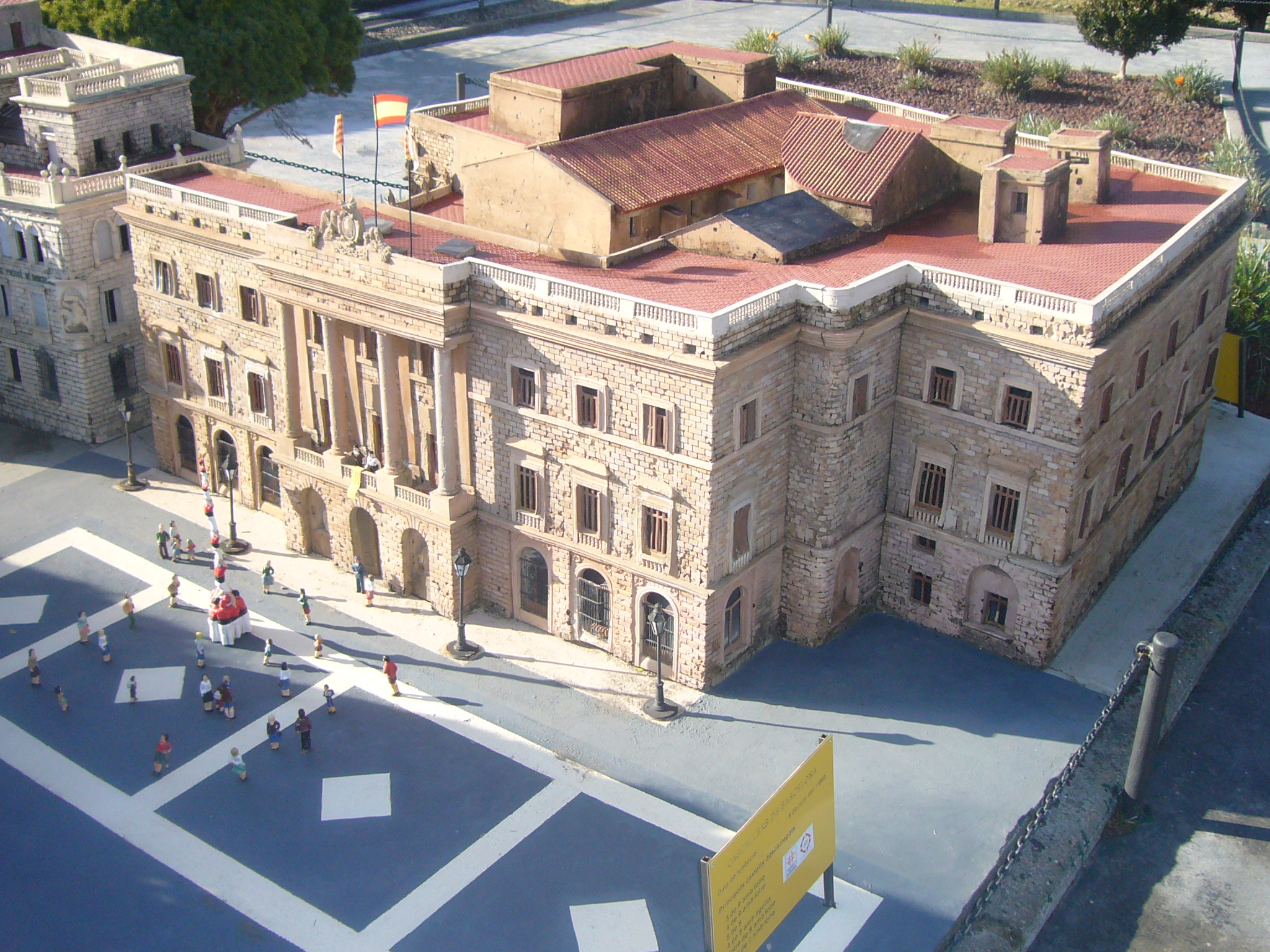 Scale model at the "Catalunya en Miniatura" miniature park : Barcelona city hall, and a "Pilar de 6" human tower at the "Plaça de Sant Jaume" square by the "Castellers de Barcelona" team.